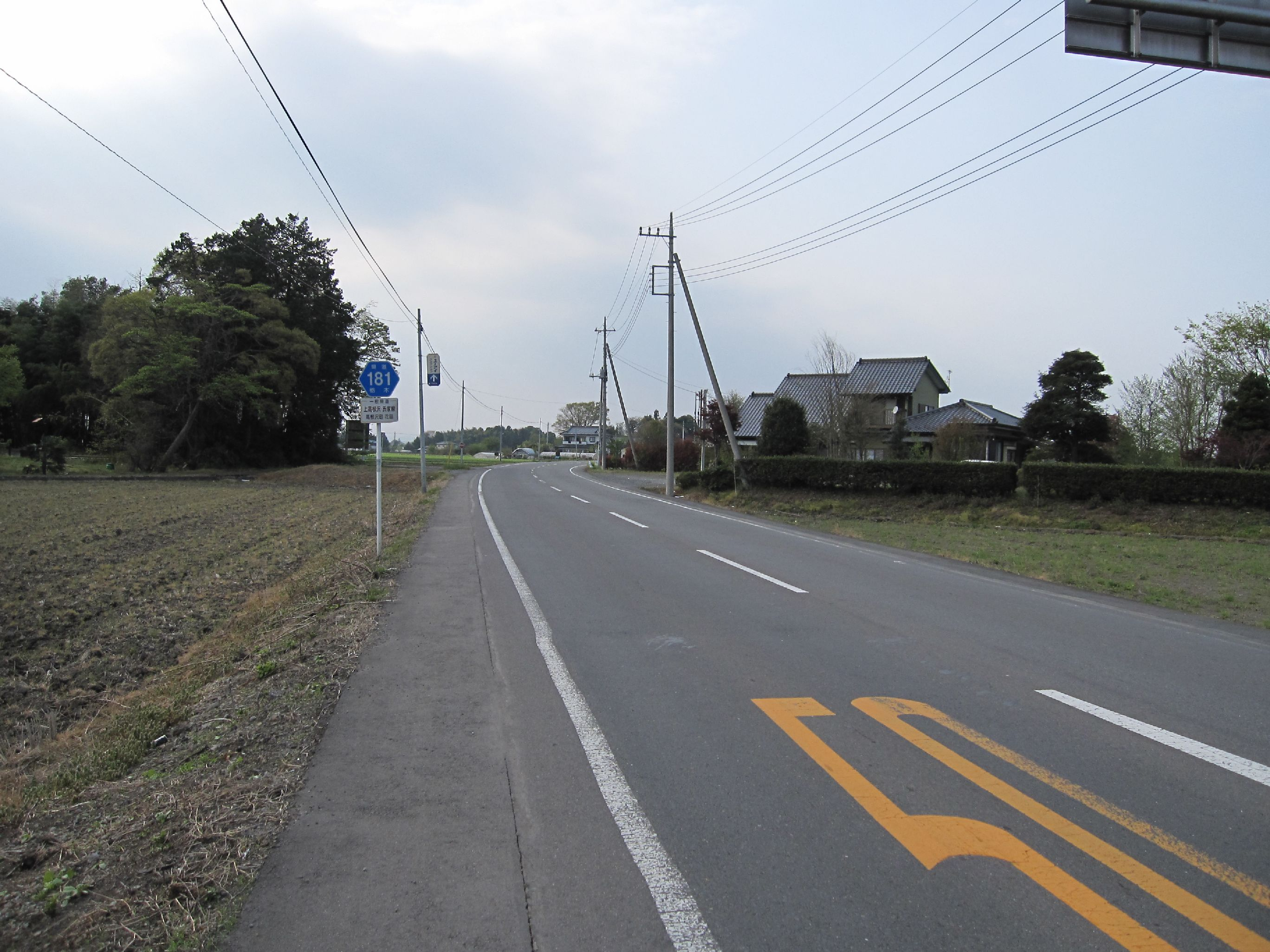 Tochigi prefectural road No.181 on Takanezawa town